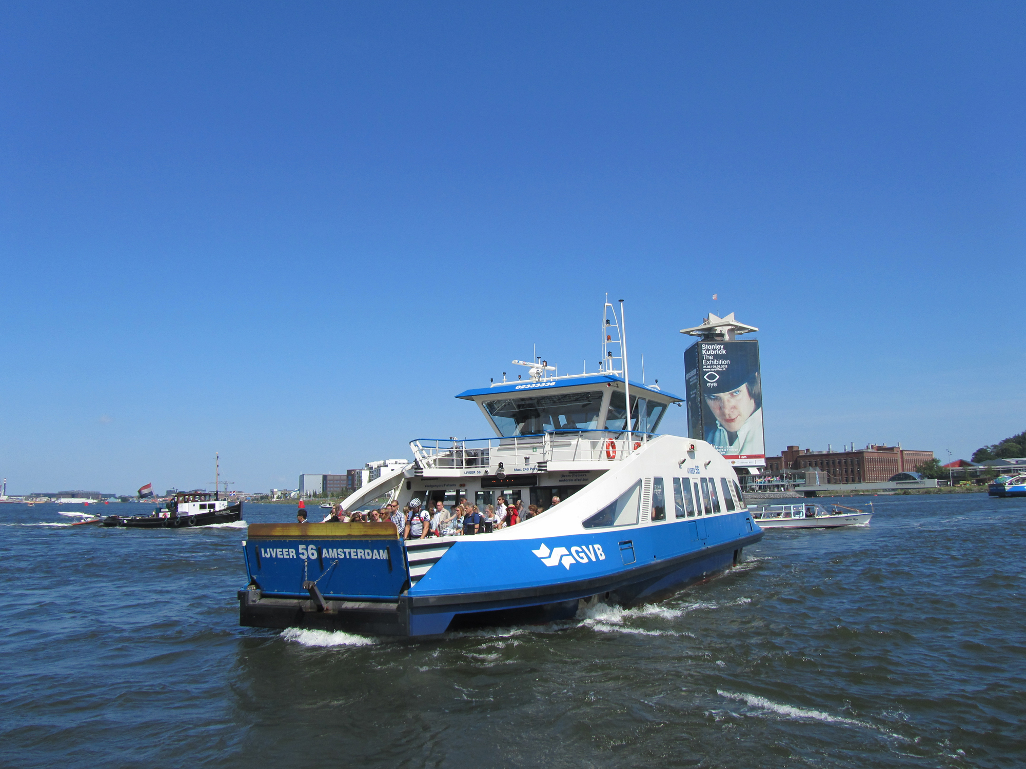 IJveer 56, ferry across the IJ, Amsterdam